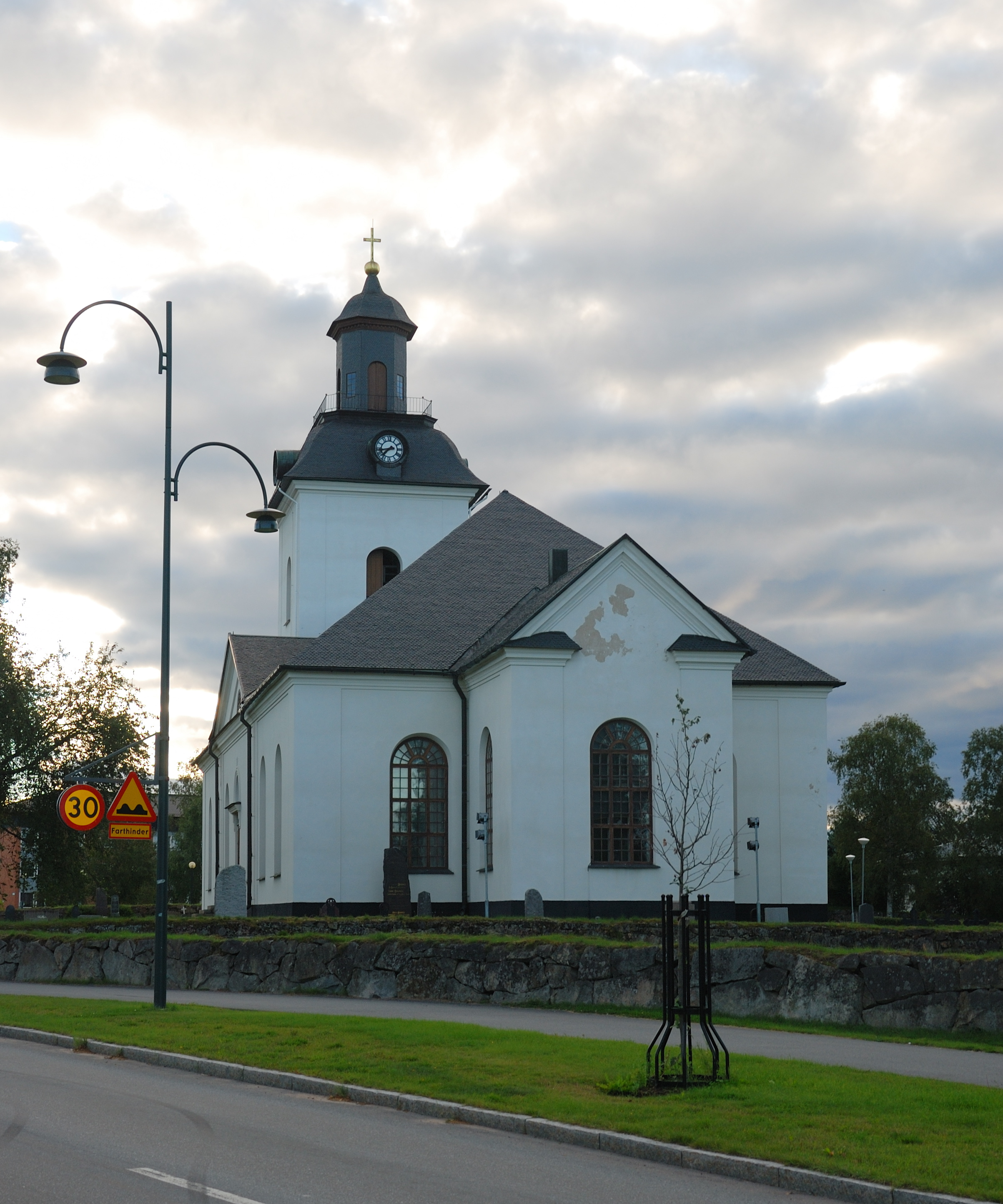 Svegs kyrka